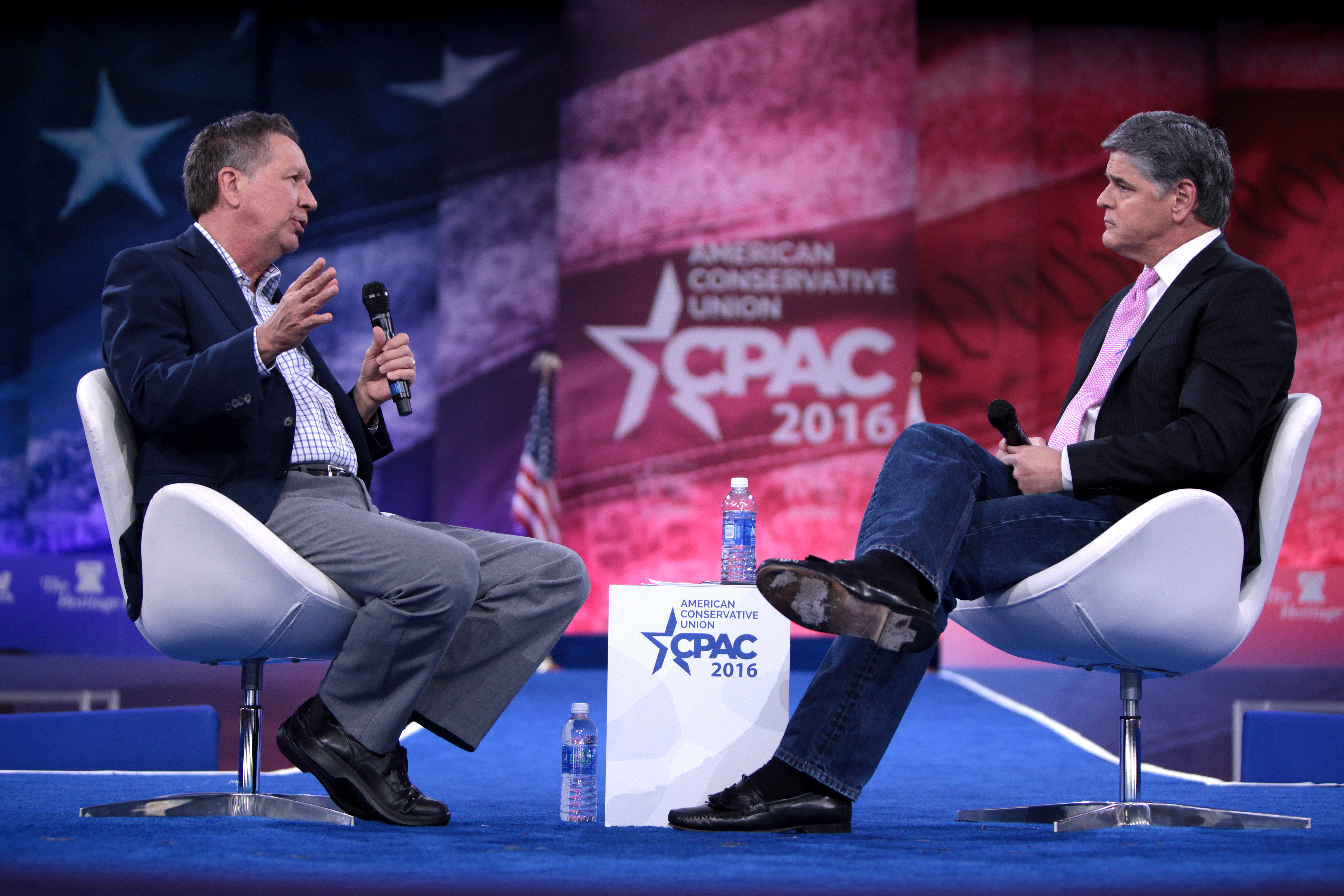 Governor John Kasich of Ohio and Sean Hannity speaking at the 2016 Conservative Political Action Conference (CPAC) in National Harbor, Maryland.